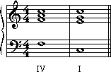 Amen cadence アーメン終止 Source: user:っ Copyrighted by っ